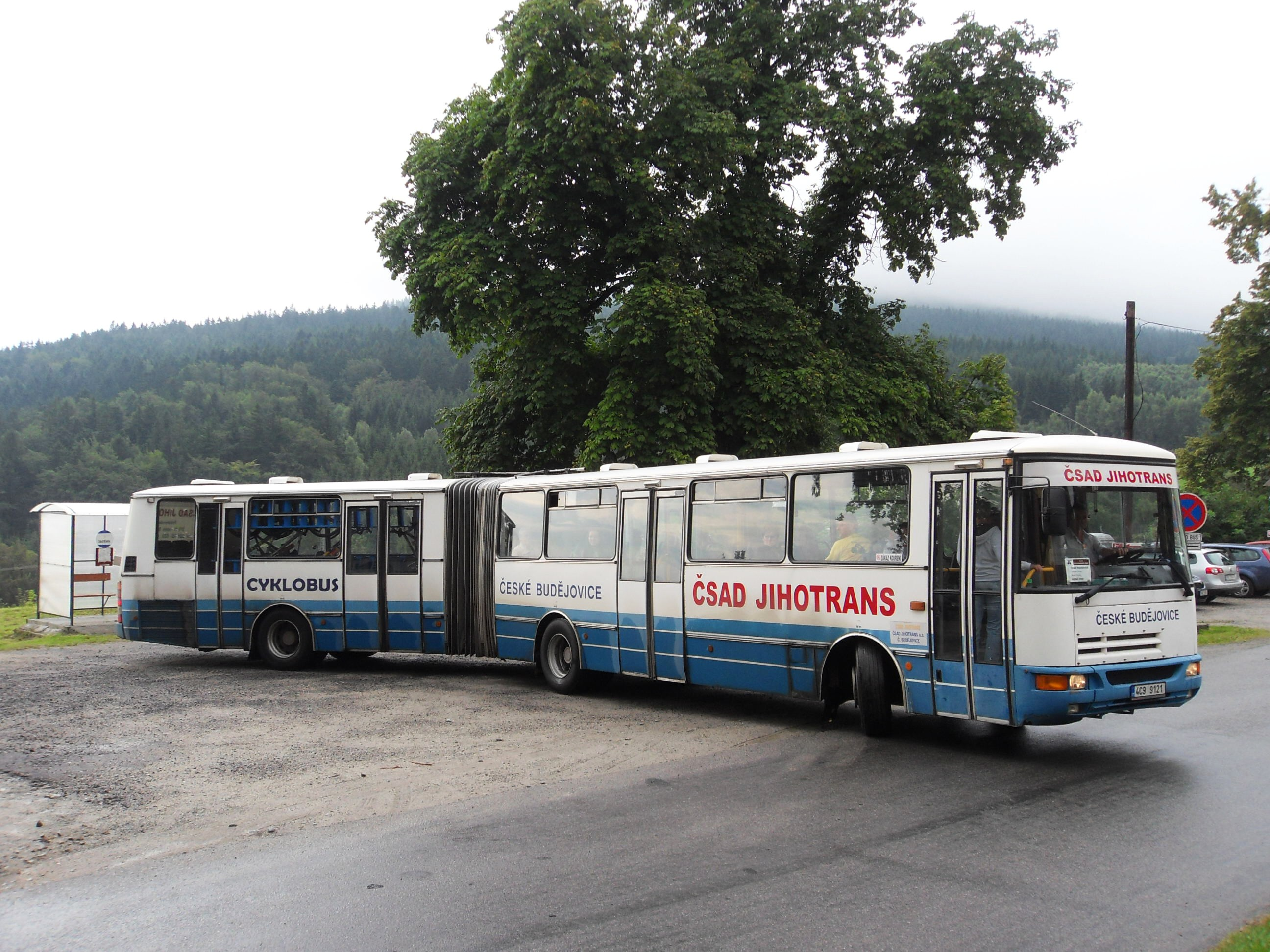 Karosa B 941 bus of ČSAD Jihotrans, Hojná Voda, Horní Stropnice, České Budějovice District, Czech Republic